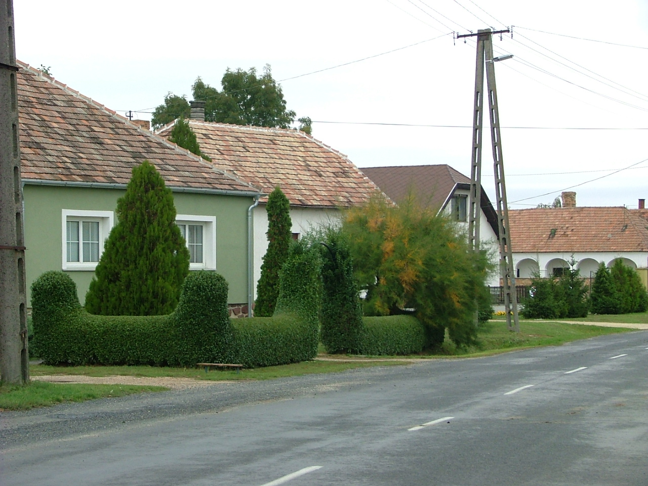 Village hall in Csapod